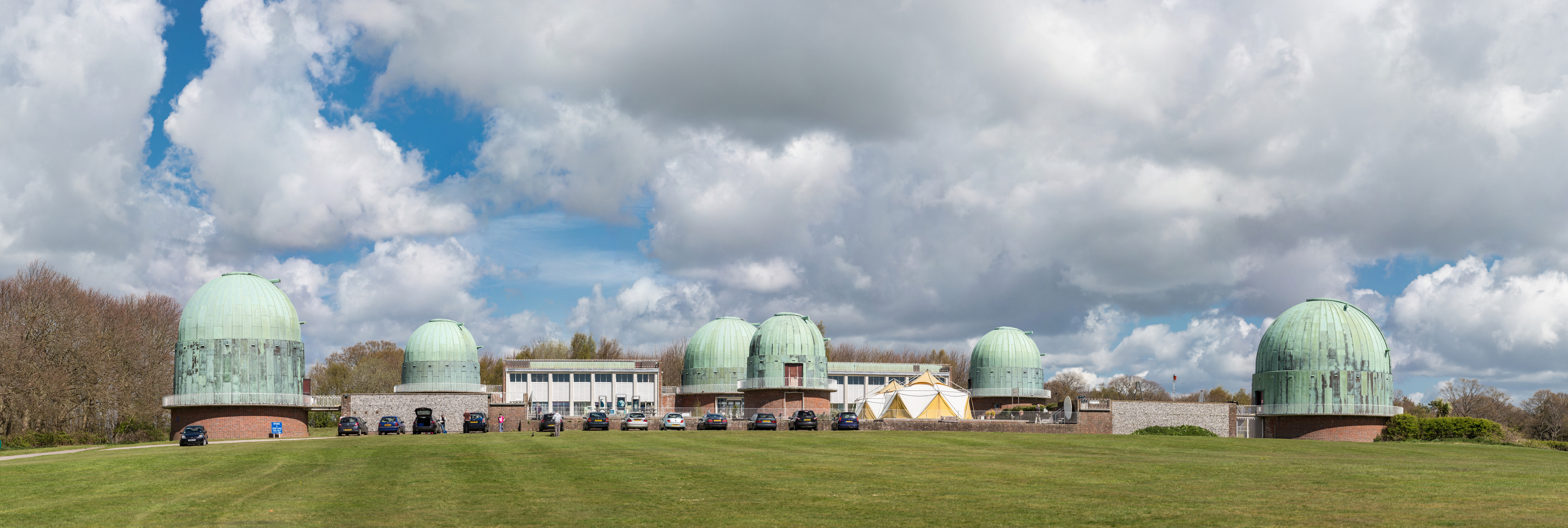 Royal Greenwich Observatory, Herstmonceux, England, as viewed from the south.